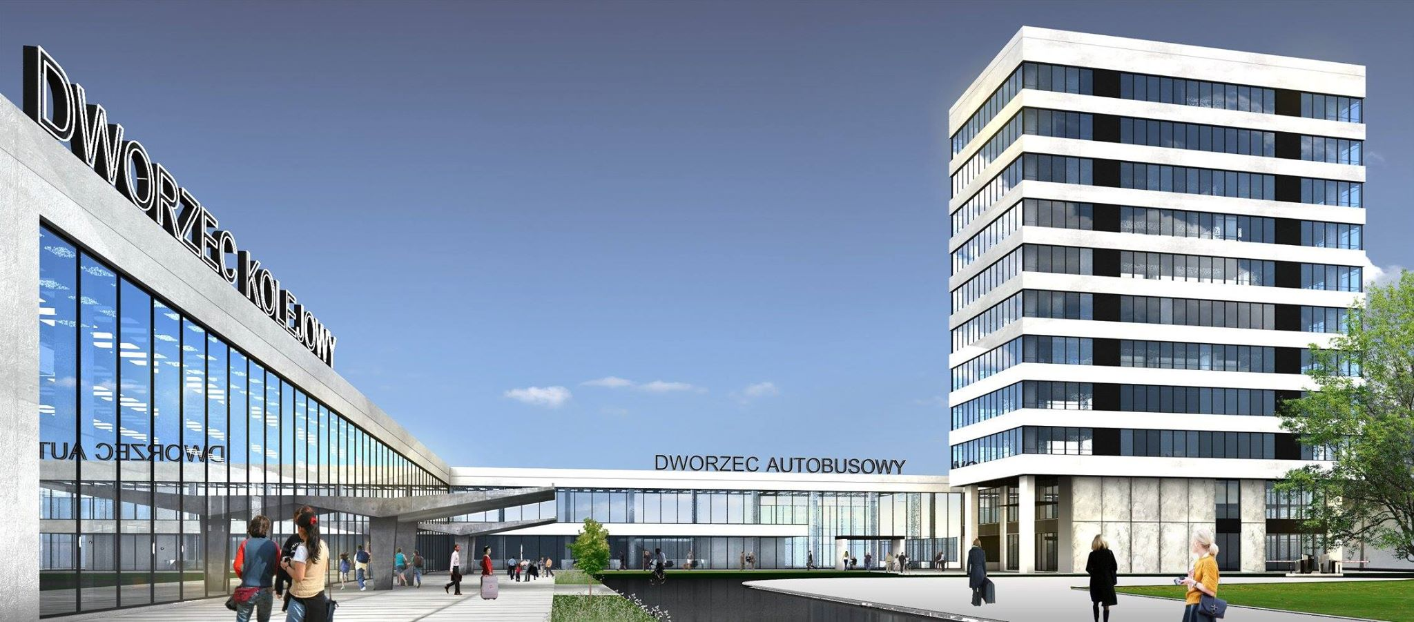 Visualization of the main station in Olsztyn created by Forum Rozwoju Olsztyna